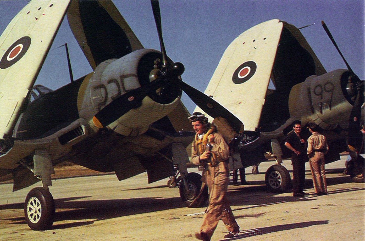 Royal Navy Vought Corsair Mk. I fighters at Naval Air Station Brunswick, Maine (USA), where Royal Navy pilots were trained on the Corsair, in 1943.